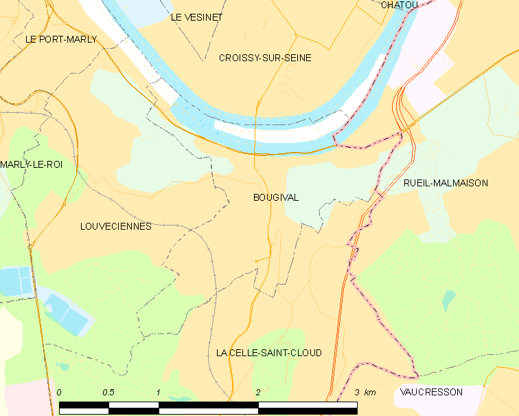 Map of French municipality Bougival